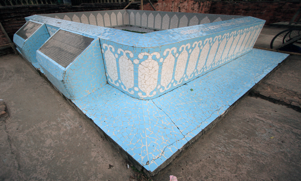 Tomb of Bir Sreshtho Captain Mohiuddin Jahangir. and Major Najmul Alam.